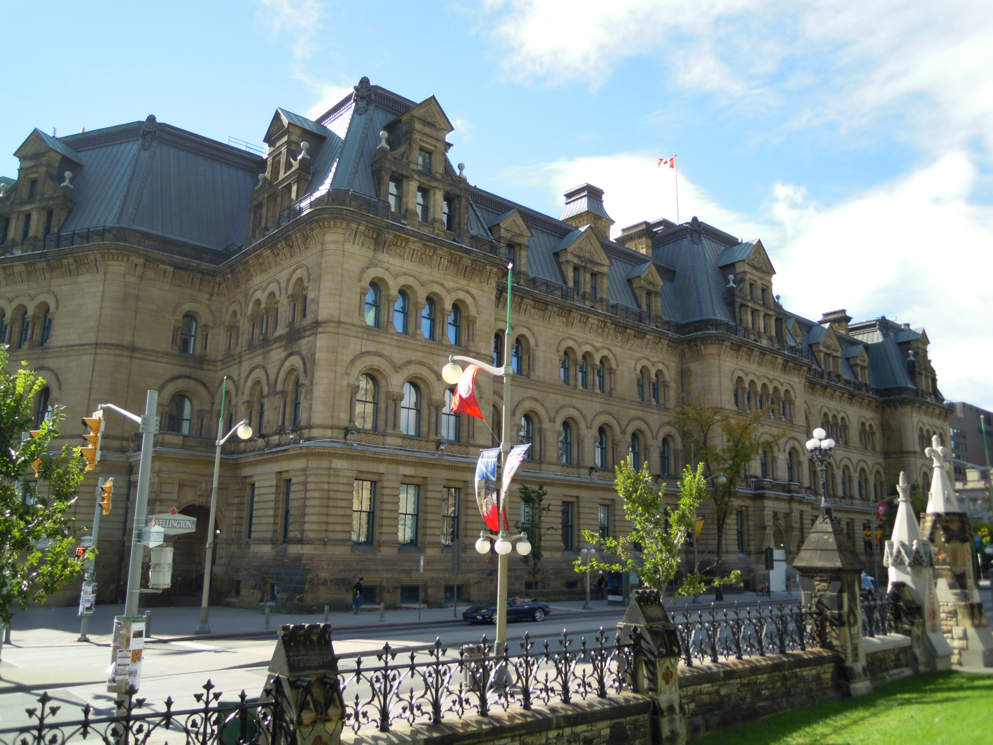 Langevin Block, Ottawa, Ontario, Canada.